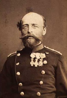 Otto Emanuel Blom (1830-1903)